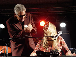 Hreinn gudlaugsson